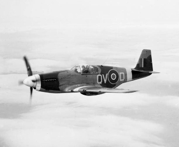 A Royal Air Force North American Mustang Mark III ("‘QV-D"’) of No. 19 Squadron RAF based at Ford, Sussex (UK), in flight. The aircraft has been painted with white identity markings on the nose and wings to prevent mis-identification as German a Messerschmitt Me 109.